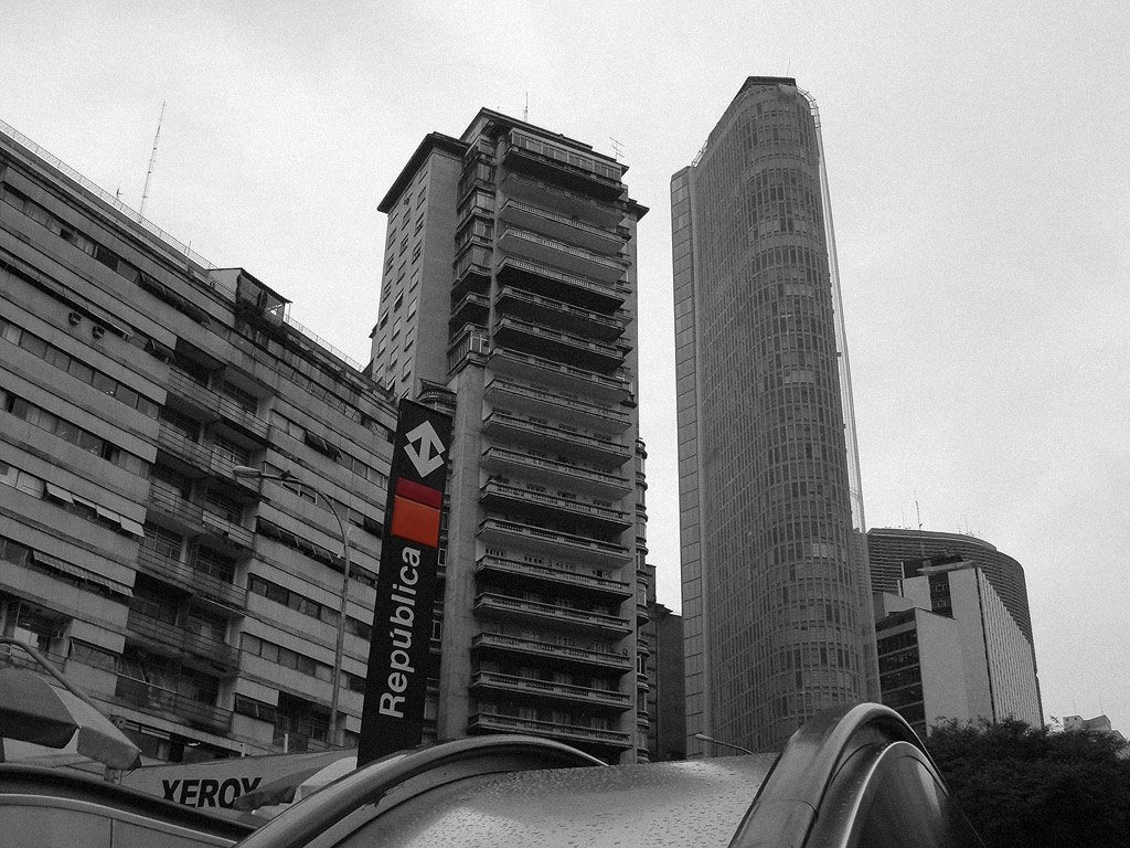 Republica Subway Station Sao Paulo - Brazil